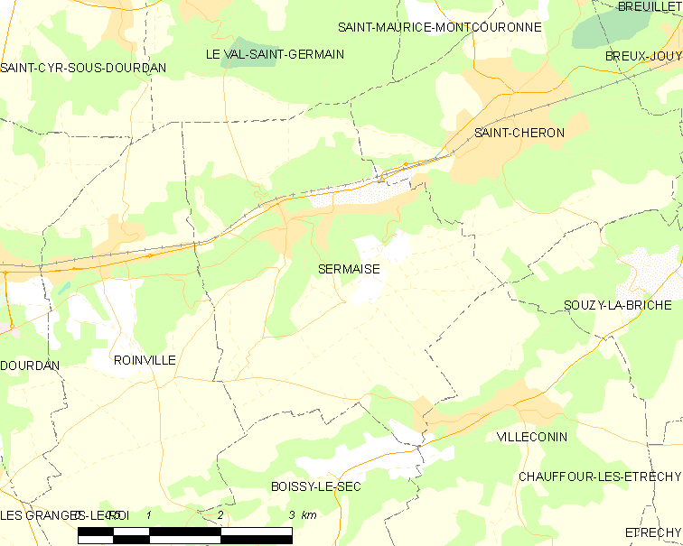 Map of French municipality Sermaise